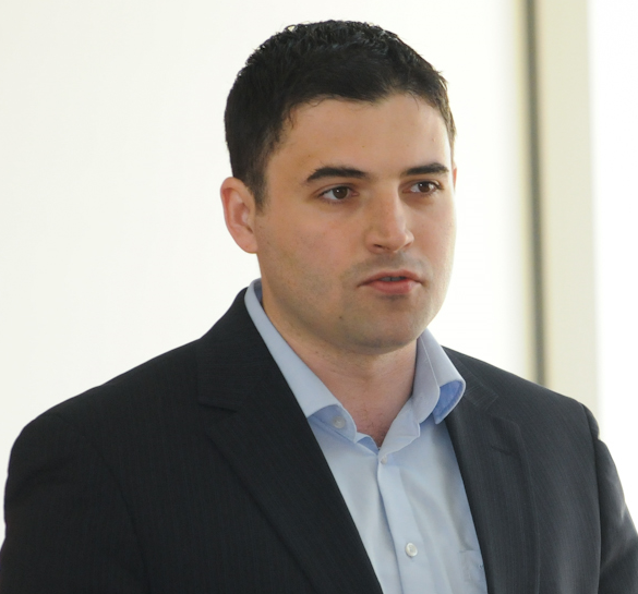 Davor Bernardić, president of the Zagreb branch of the Social Democratic Party of Croatia and vice president of the party